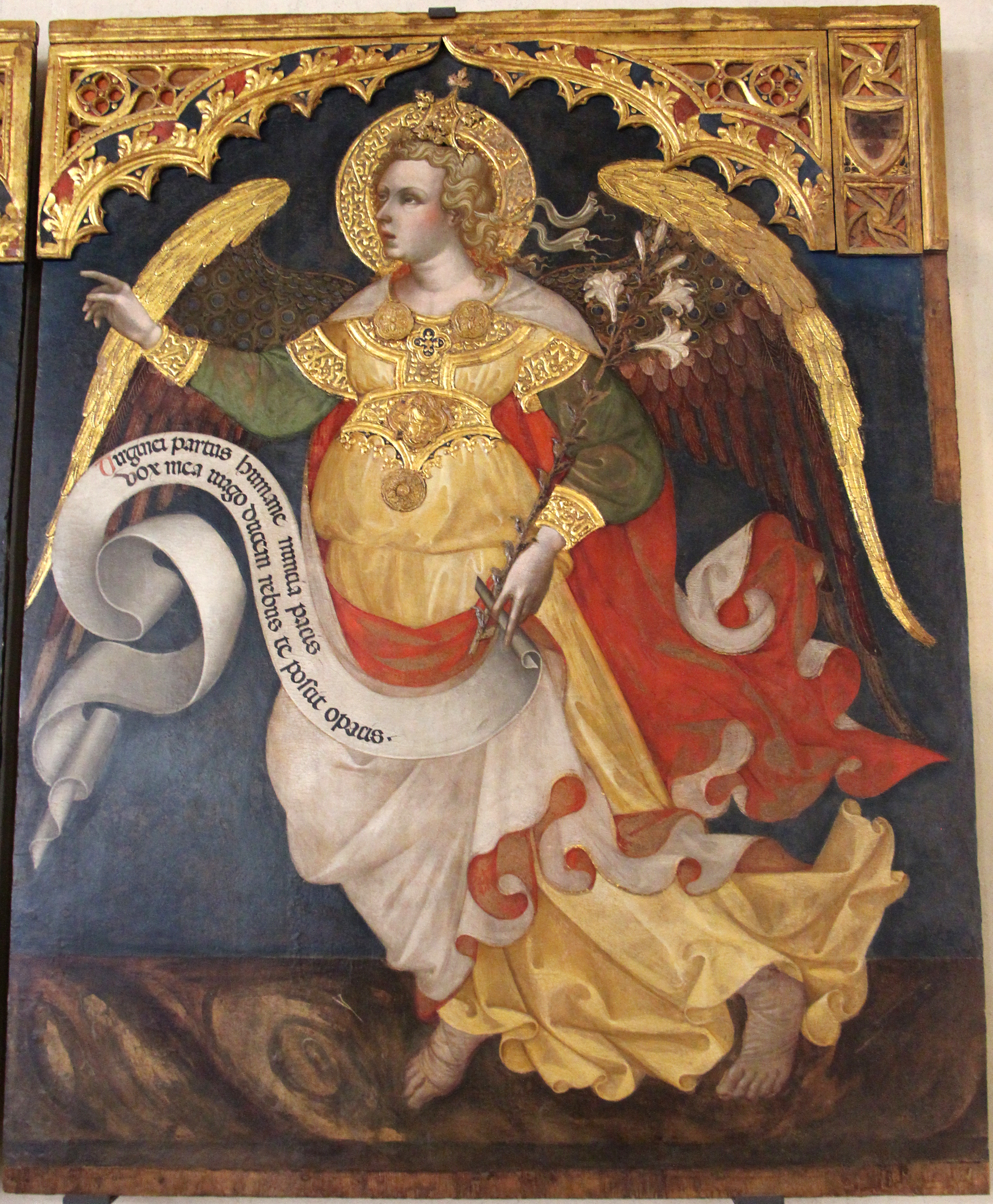 Justice seated between two lions and the archangels Michael and Gabriel. She holds her attributes sword and scales.